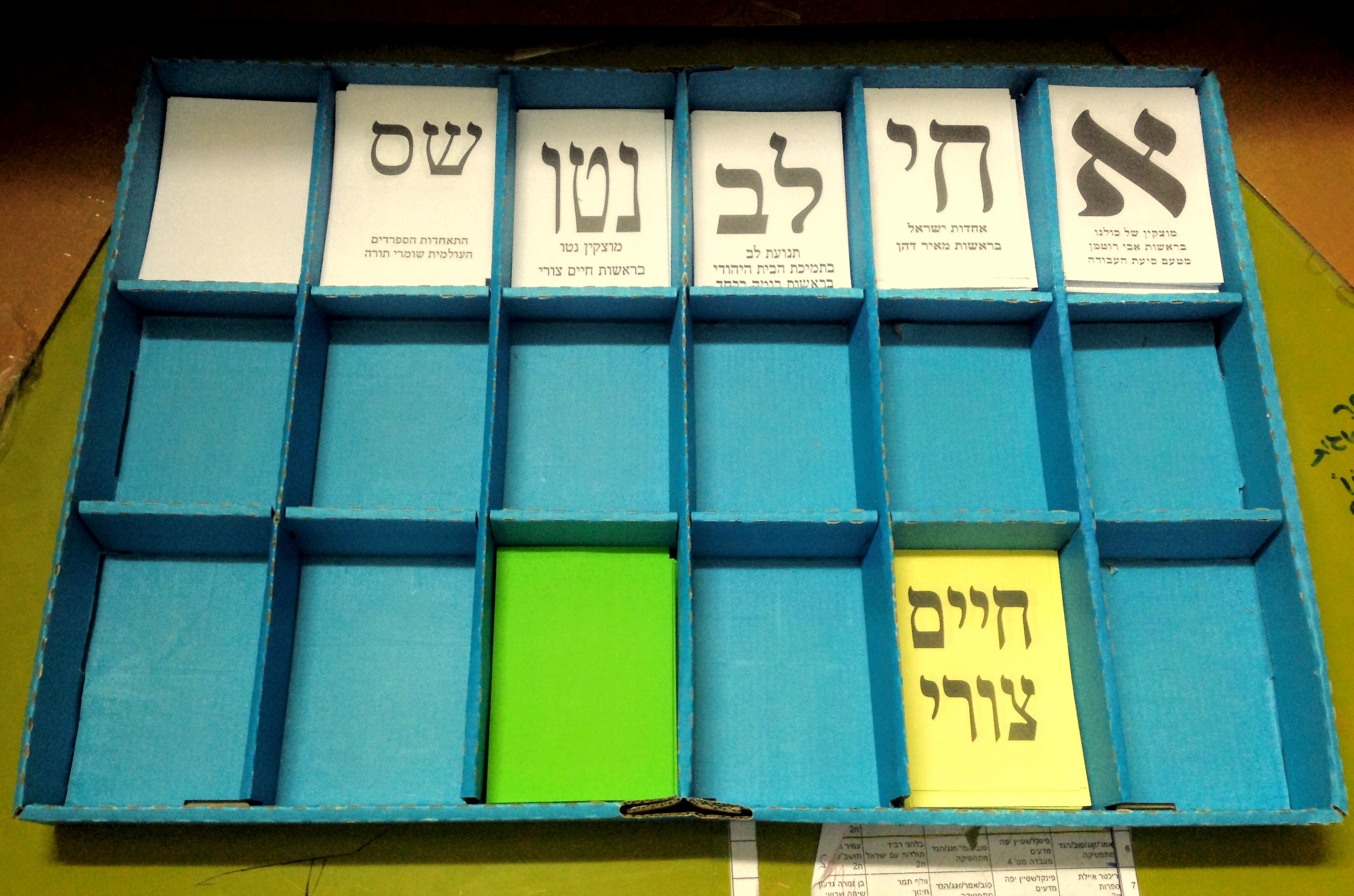 At the 2013 municipal election in Israel, there were 8 municipalities where there was only one candidate to the mayor's office. One of them was the city of Kiryat Motzkin.At the picture, the order of the ballot papers in one of the ballot stations at the city. Aside from the white papers for electing the parties to the local council, there's only one yellow paper with a name on it (of Haim Tzuri) and next to it, green papers. Putting a green paper in the yellow envelope meant opposing the candidate to the mayor's office.